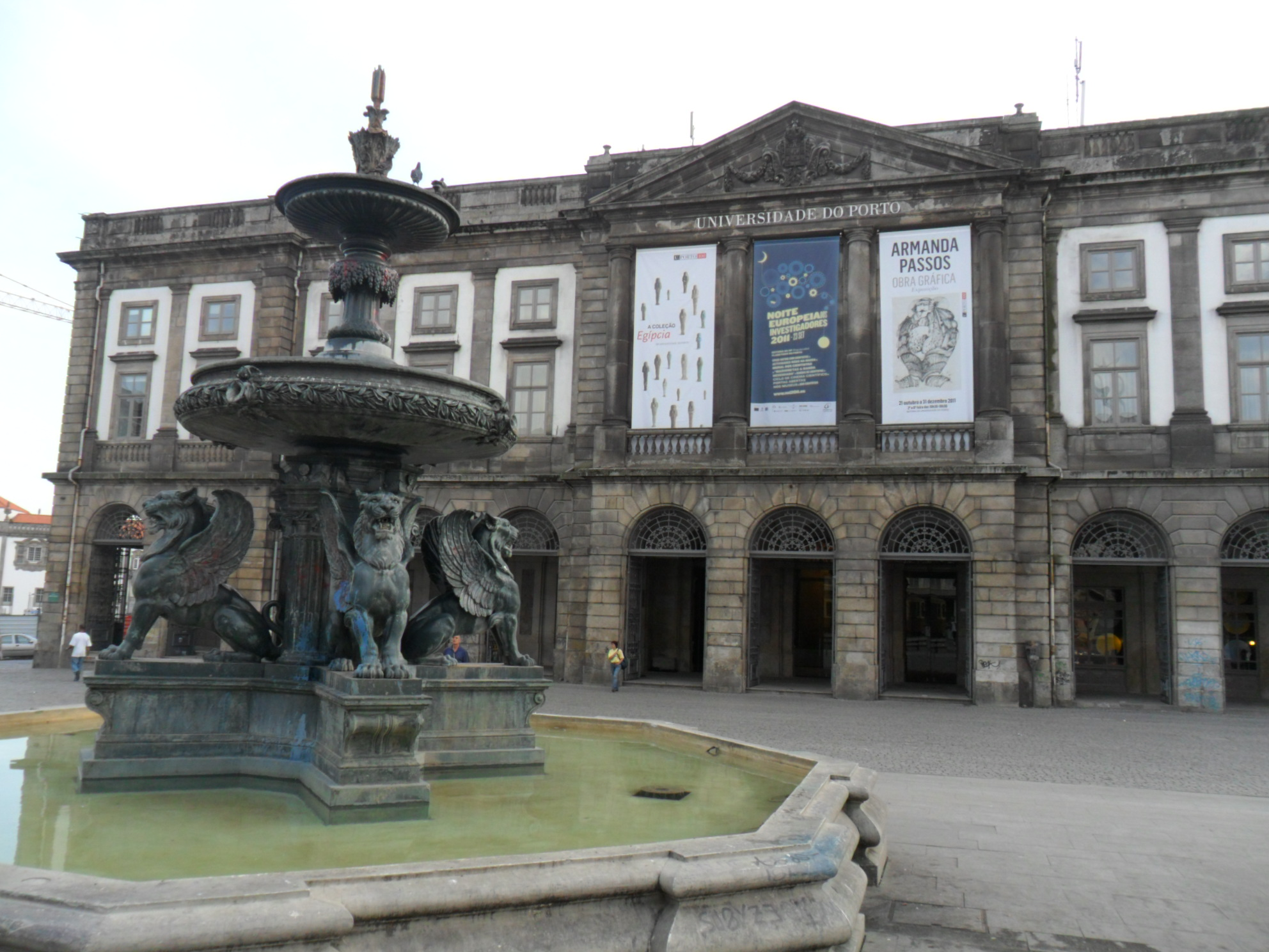 This file was uploaded for Wiki Loves Monuments in Portugal with the unique identifier 97003969.